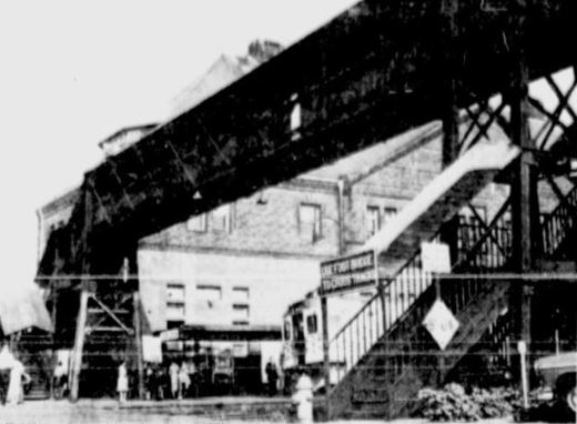 The pedestrian bridge at New London Union Station in September 1961, just before its removal. Built in 1912 to provide better and safer access to ferries, it was by 1961 dilapidated and mostly used as an observation point to view the river.